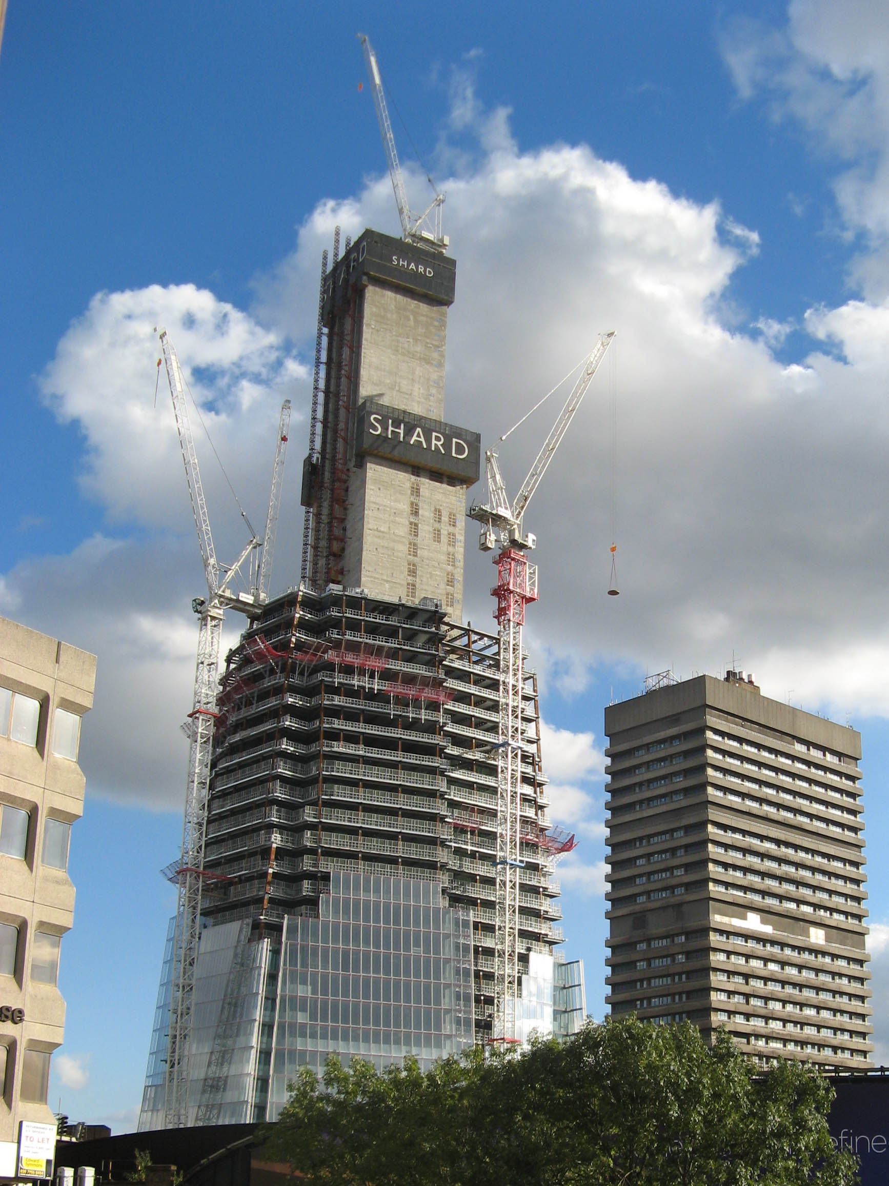 The Shard London Bridge in late September 2010, as seen from the south bank end of London Bridge.